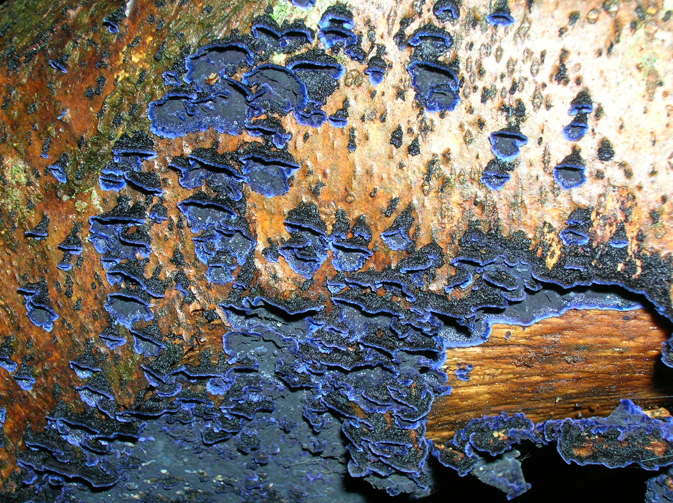 Cobalt Crust fungus, Pulcherricium caeruleum, at Eglinton Country Park, Irvine, Ayrshire, Scotland.